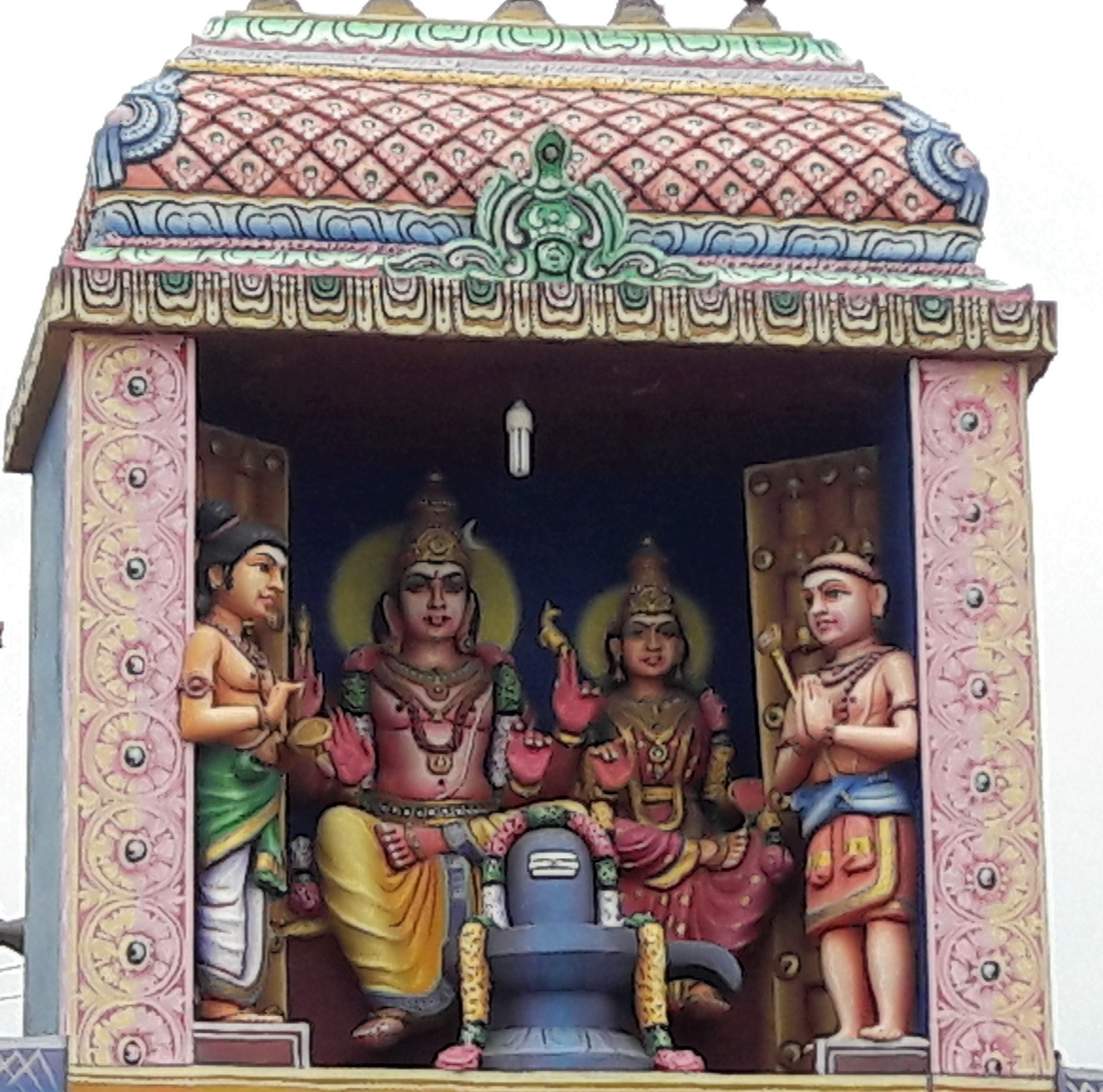 Vedaranyeswarar temple, Vedaranyam